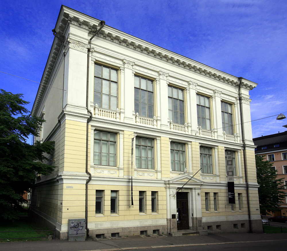 Finnish Architecture Museum, Kasarmikatu 24, Helsinki. Built 1899. Architect: Magnus Schjerfbeck.